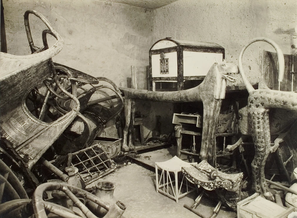 Harry Burton: Tutankhamun tomb photographs: a photographic record in 5 albums containing 490 original photographic prints ; representing the excavations of the tomb of Tutankhamun and its contents. Vol. 2